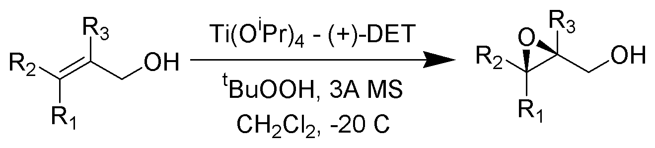 Description: Reaction scheme of the Sharpless epoxidation. Author, date of creation: selfmade by ~K, 20 August 2006. Source: - Copyright: Public domain. (PD) Comments: high-resolution b/w PNG; ChemDraw / The GIMP.